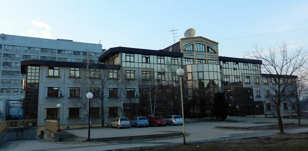 Internal Clinic, KBC Kragujevac - Veroljub Atanasijevic 1992